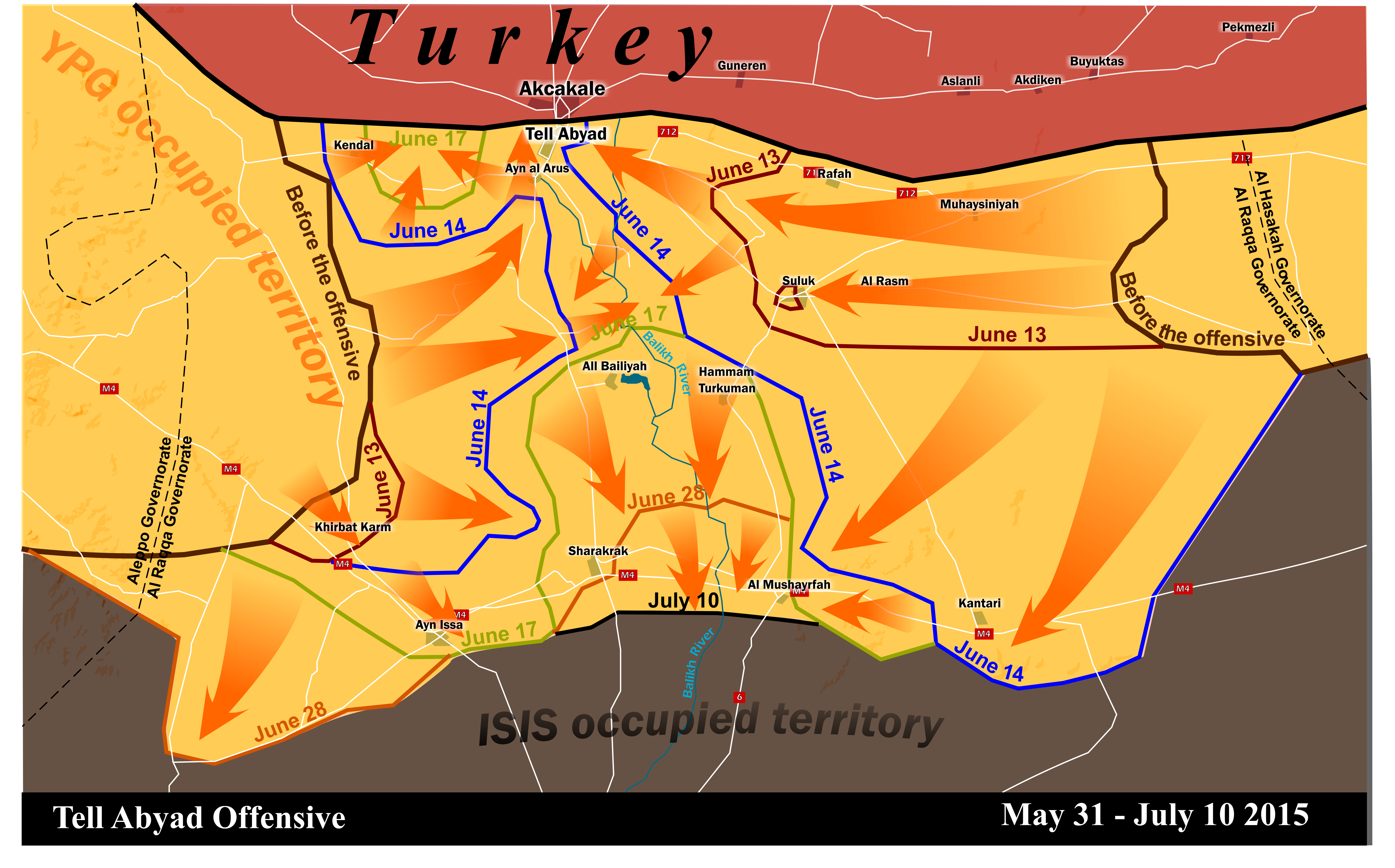 Map of the Tell Abyad offensive made in Inkscape. Influenced by many mappers such as MrPenguin20, Nrg8000, Karybdamoid, and so on. SVG version is on my uploads Wikimedia page.